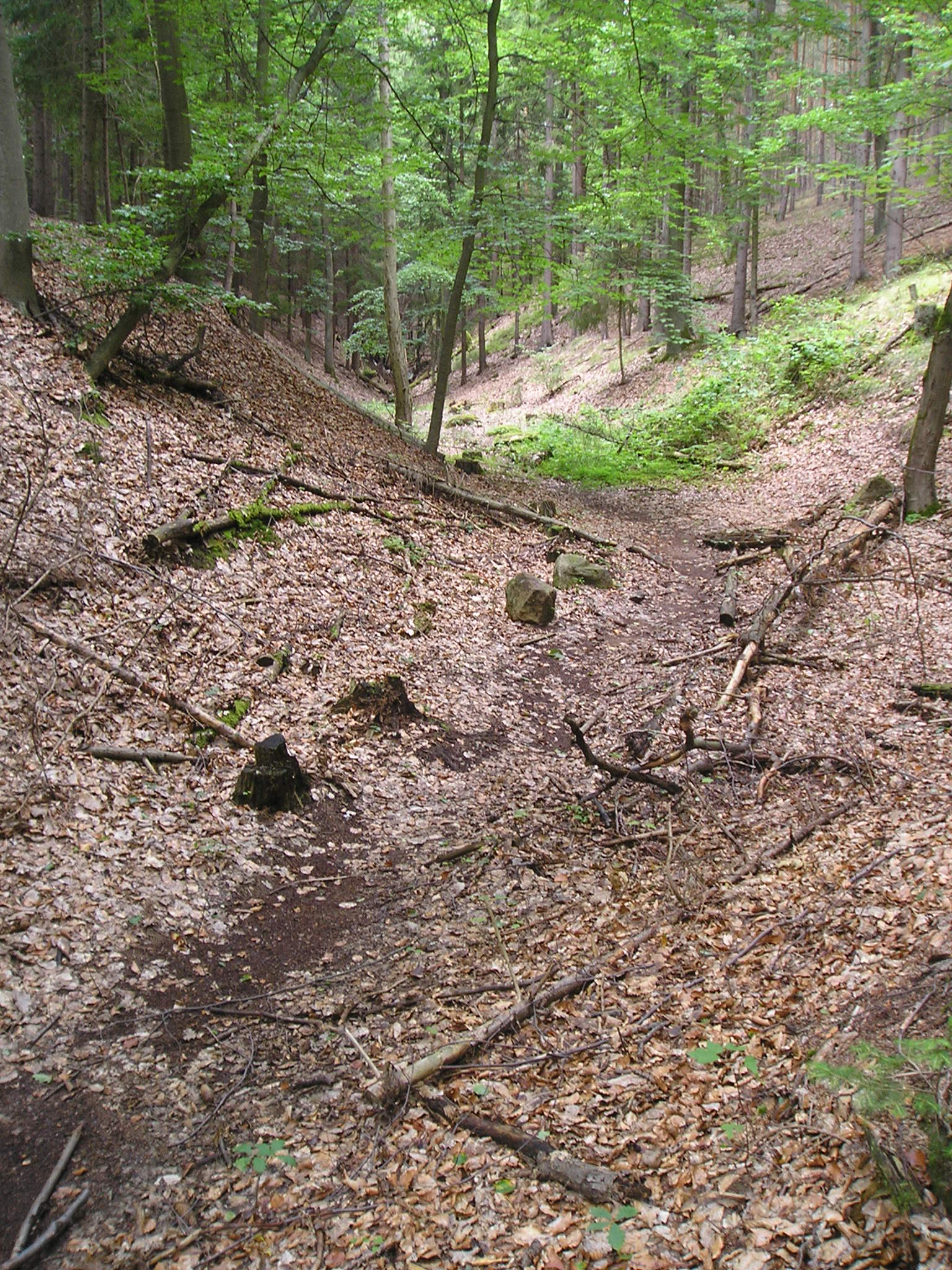 Nature reserve Petrovka in Bolevec (Pilsen)